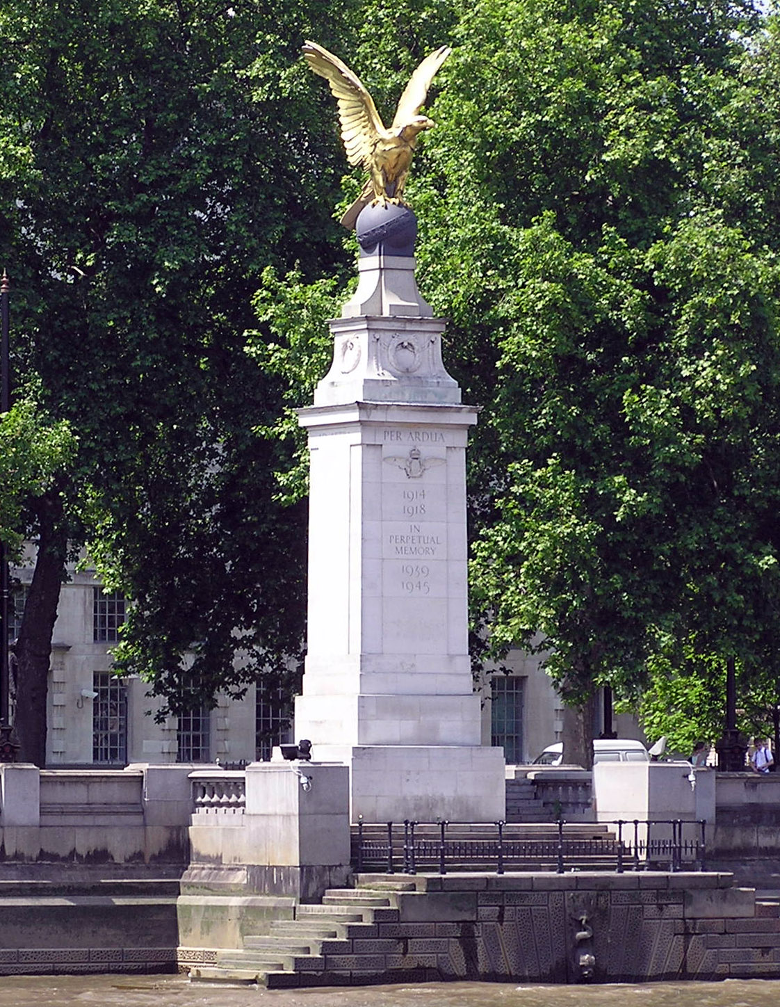 The RAF Memorial on the Victoria Embankment, London (opposite the London Eye). Erected in 1923 as a memorial to “all ranks of the Royal Navy Air Service, Royal Flying Corps, Royal Air Force and those Air Forces from every part of the British Empire who gave their lives in winning victory for their King and Country 1914-1918”. An inscription commemorating those lost in the 1939-1945 war was added in 1946. The base is portland stone, the eagle and globe are bronze. Photographed by Adrian Pingstone in June 2005 and released to the public domain.